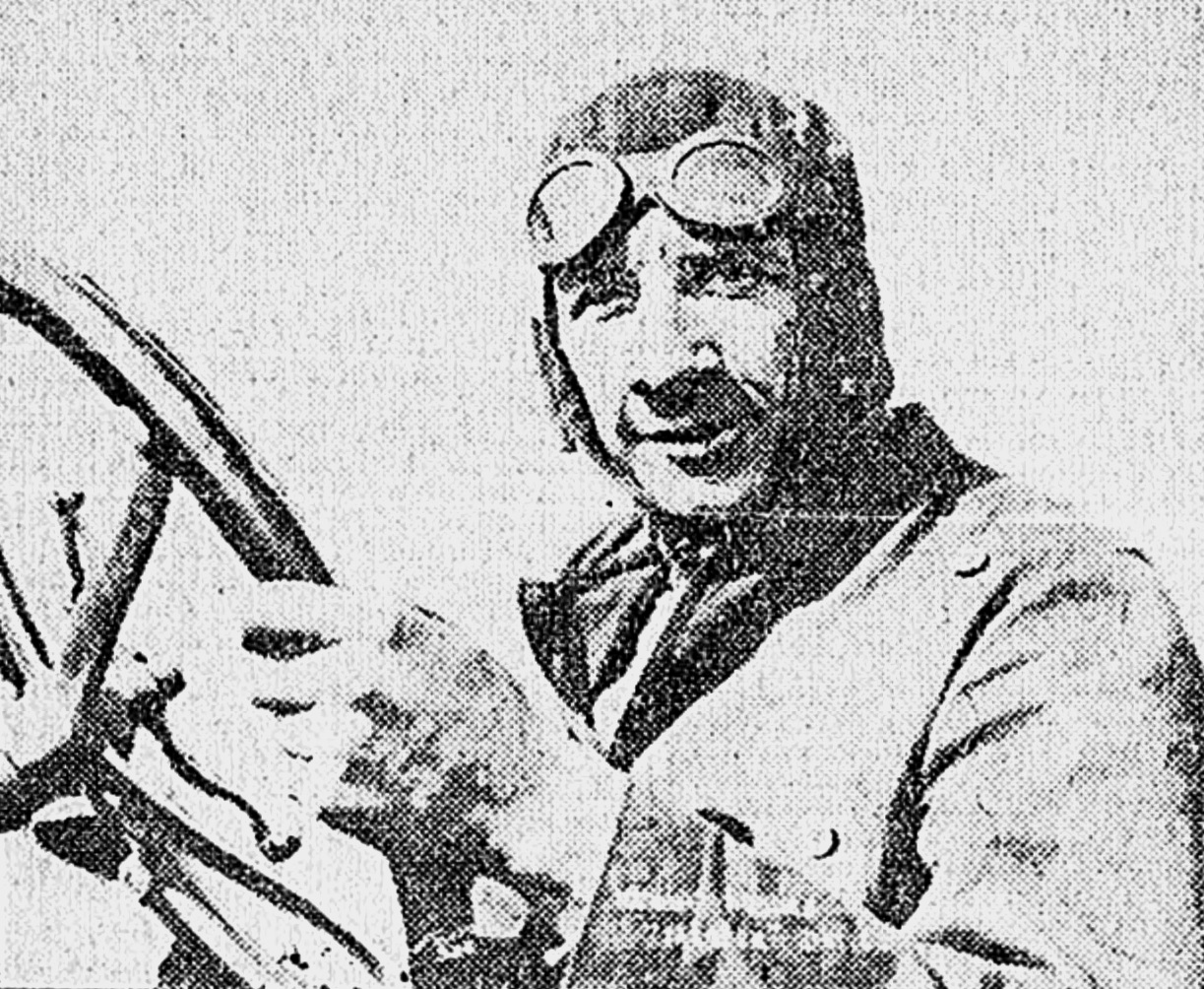 Hughie Hughes (c.1885 – 2 December 1916) was a British racecar driver who participated in the 1911 Indianapolis 500 and the 1912 Indianapolis 500. This is a 1911 newspaper publicity photo.